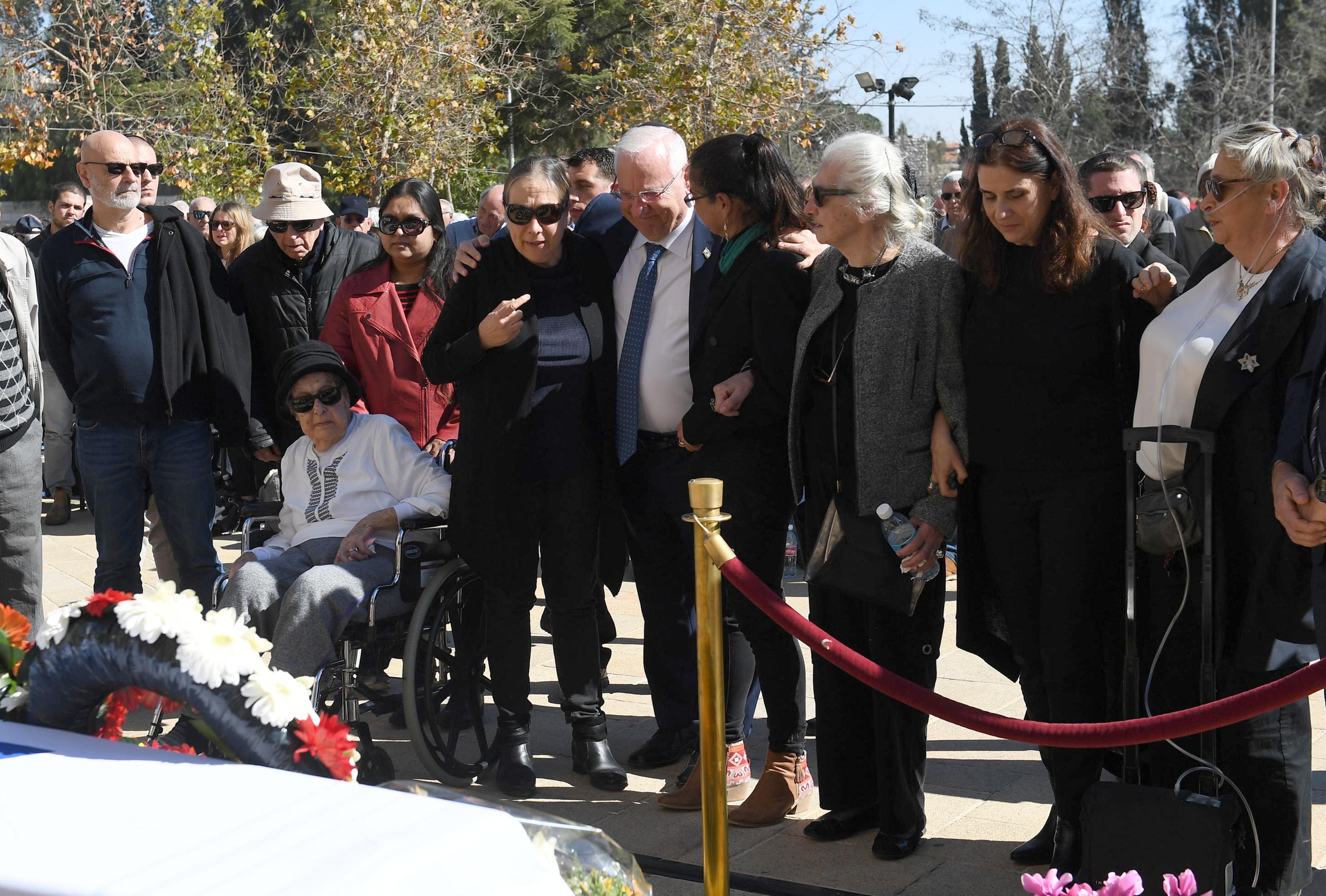 President of Israel, Reuven Rivlin, paying last respect to the poet Haim Gouri at a ceremony held at the Jerusalem Theatre. Thursday, February 1, 2018. Photo Credit: Mark Neyman / GPO.